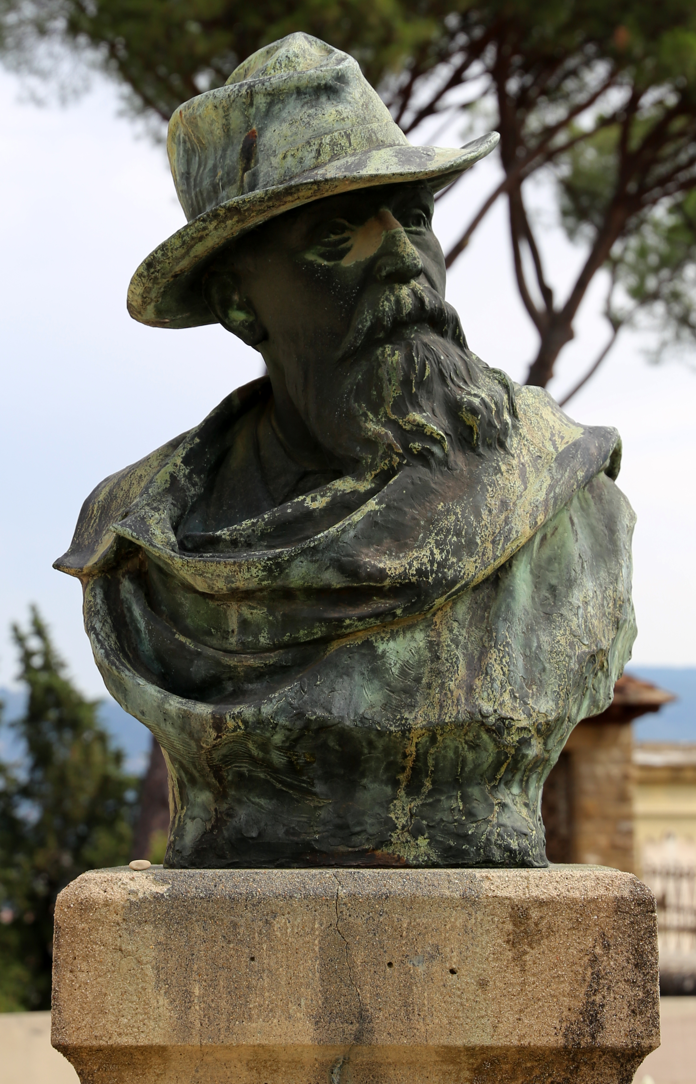 Porte Sante cemetery